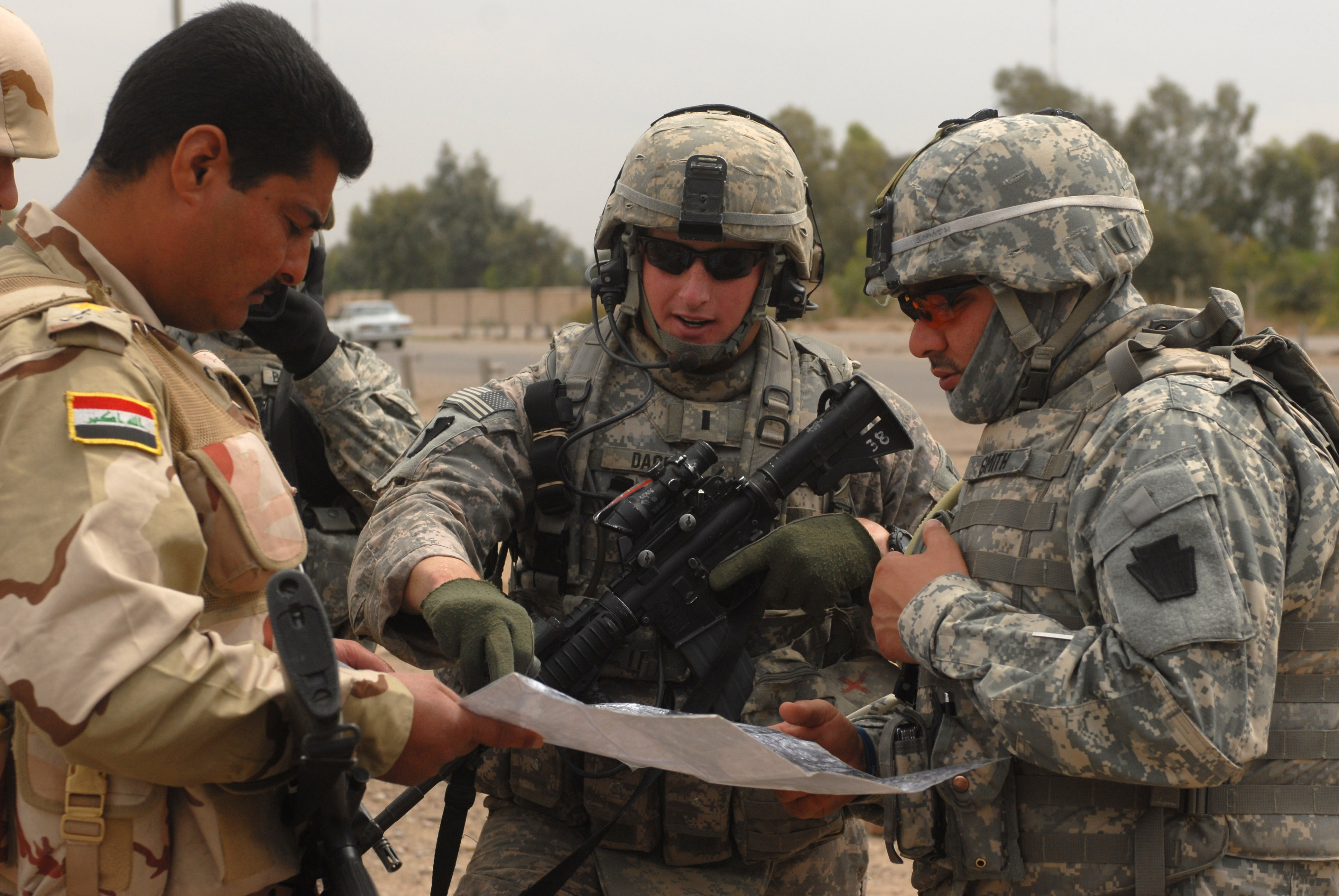 U.S. Army 1st Lt. Andrew Dacey from the 2nd Brigade, 1st Infantry Division reviews security checkpoints with Iraqi soldiers in the city of Abu Ghraib, Iraq, on March 31, 2009.